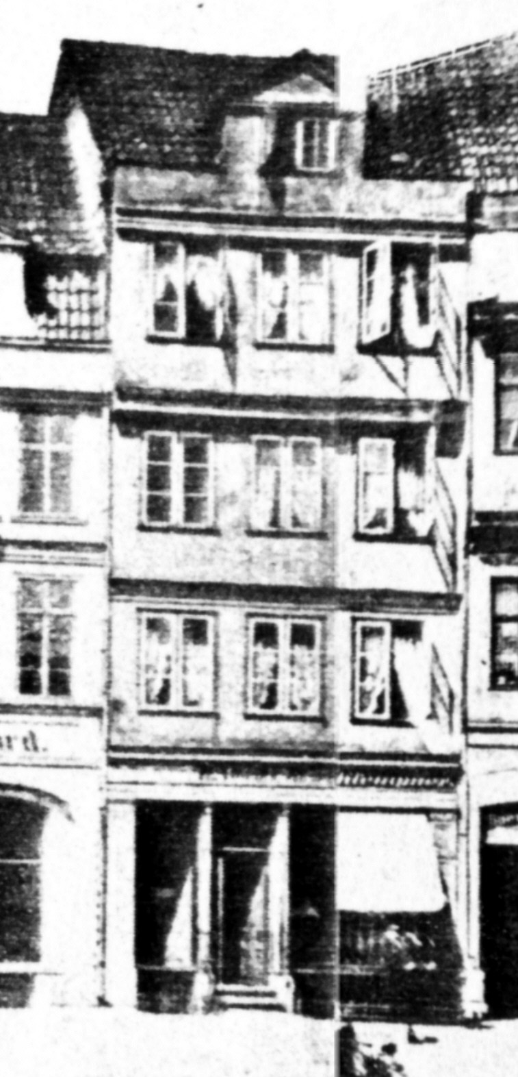 The building Markt No. 239 in Lübeck, demolished in 1882